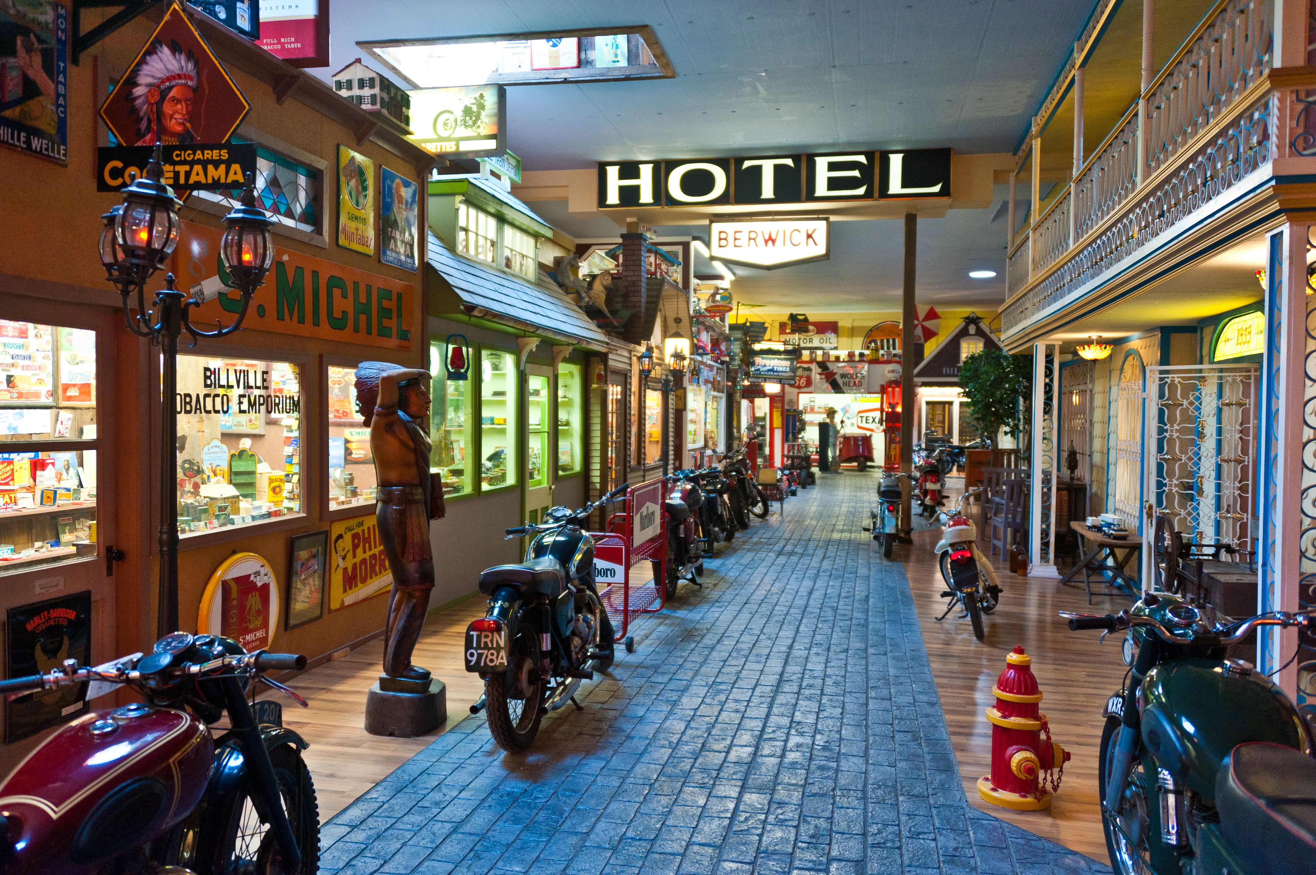 Bill's Bike Barn Bill's Old Bike Barn, a motorcycle and Americana museum in Bloomsburg, Pennsylvania.